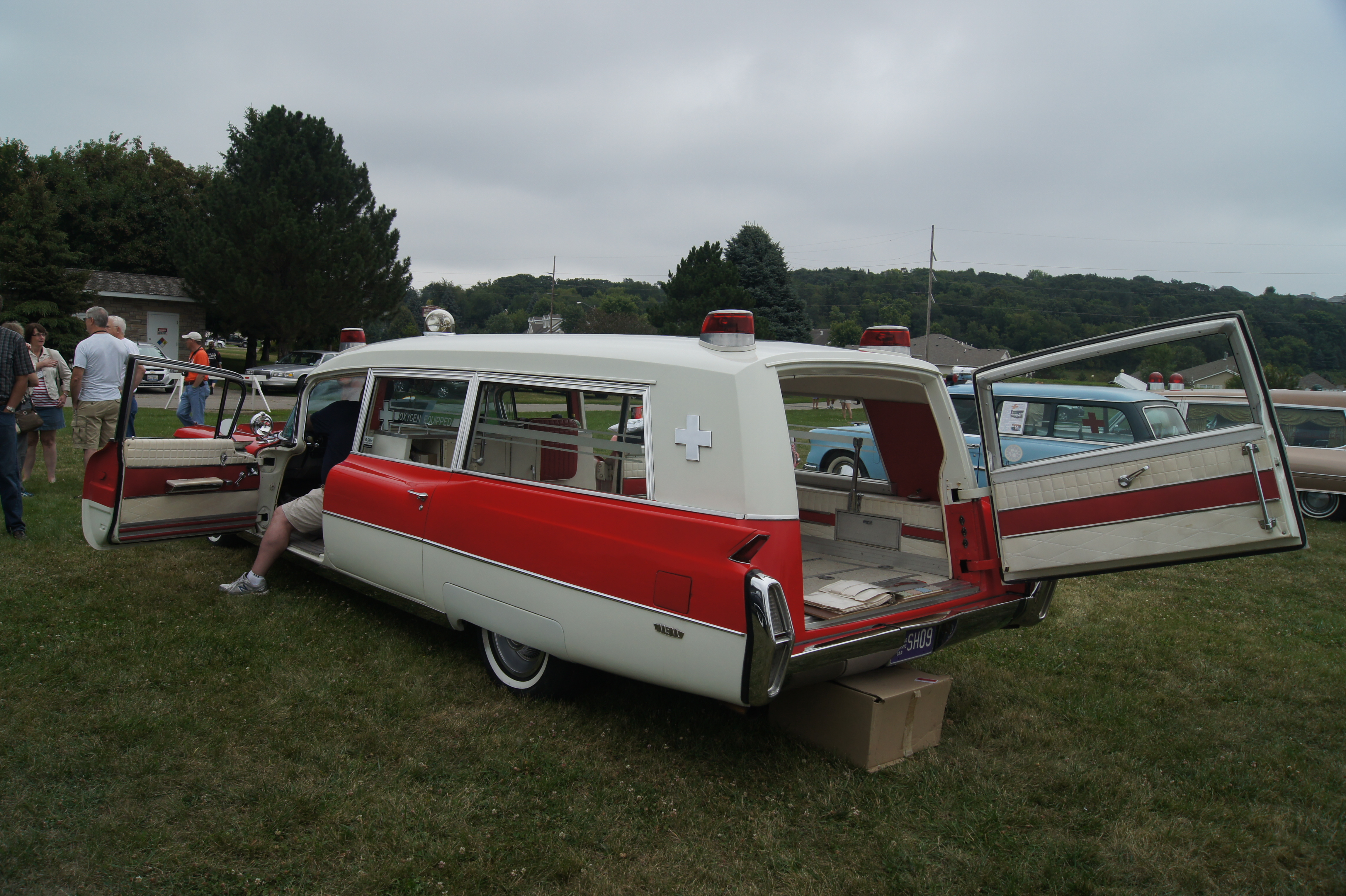 Professional Car Society International Meet 2014 Respond to Rochester Host: Northland Chapter (Celebrating Northland's 25th Anniversary) PCS Concours D'Elagance Show & Shine August 16, 2014 Olmstead County History Center Rochester, Minnesota You can see more car pictures by clicking on the link below